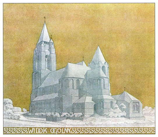 Warsaw (Ochota District) Kościół p.w. Niepokalnego Poczęcia Najświętszej Marii Panny / Church of the Immaculate Conception of St. Mary (also ‘św. Jakub’), 1909